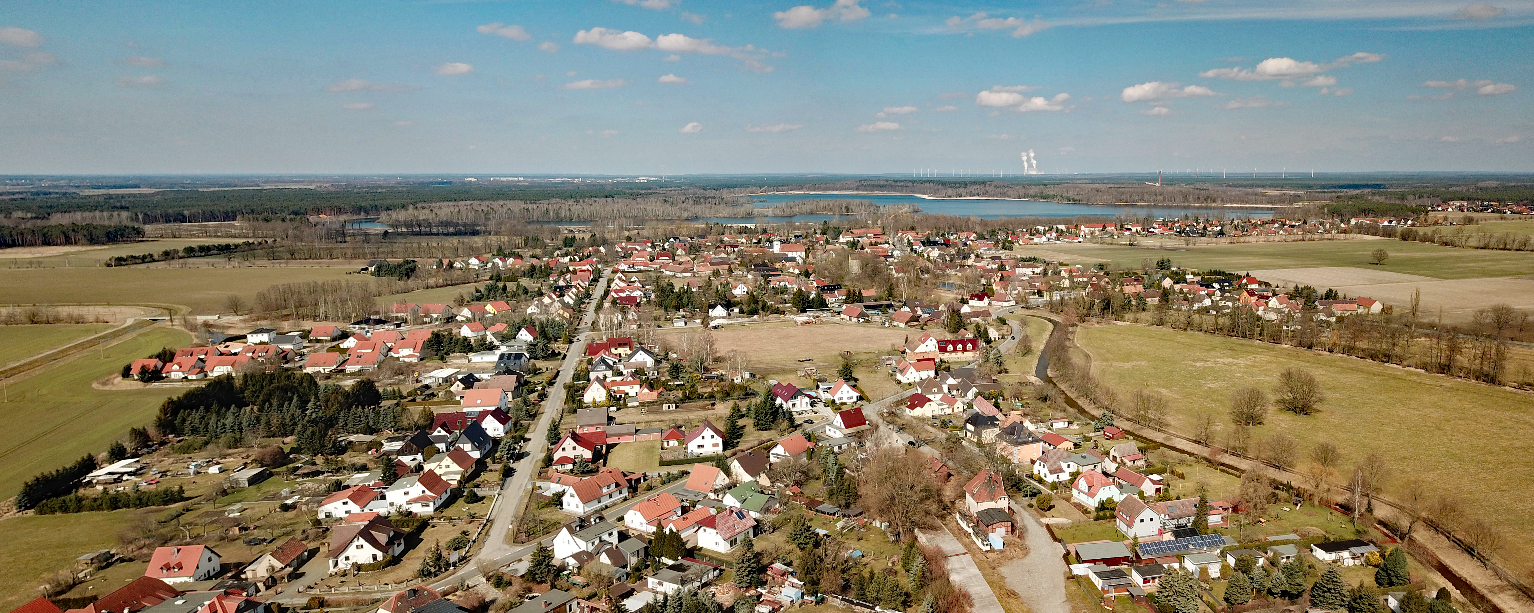 Groß Särchen (Lohsa, Saxony, Germany) Hornjoserbsce: Powětrowy wobraz Wulkich Zdźar z juha